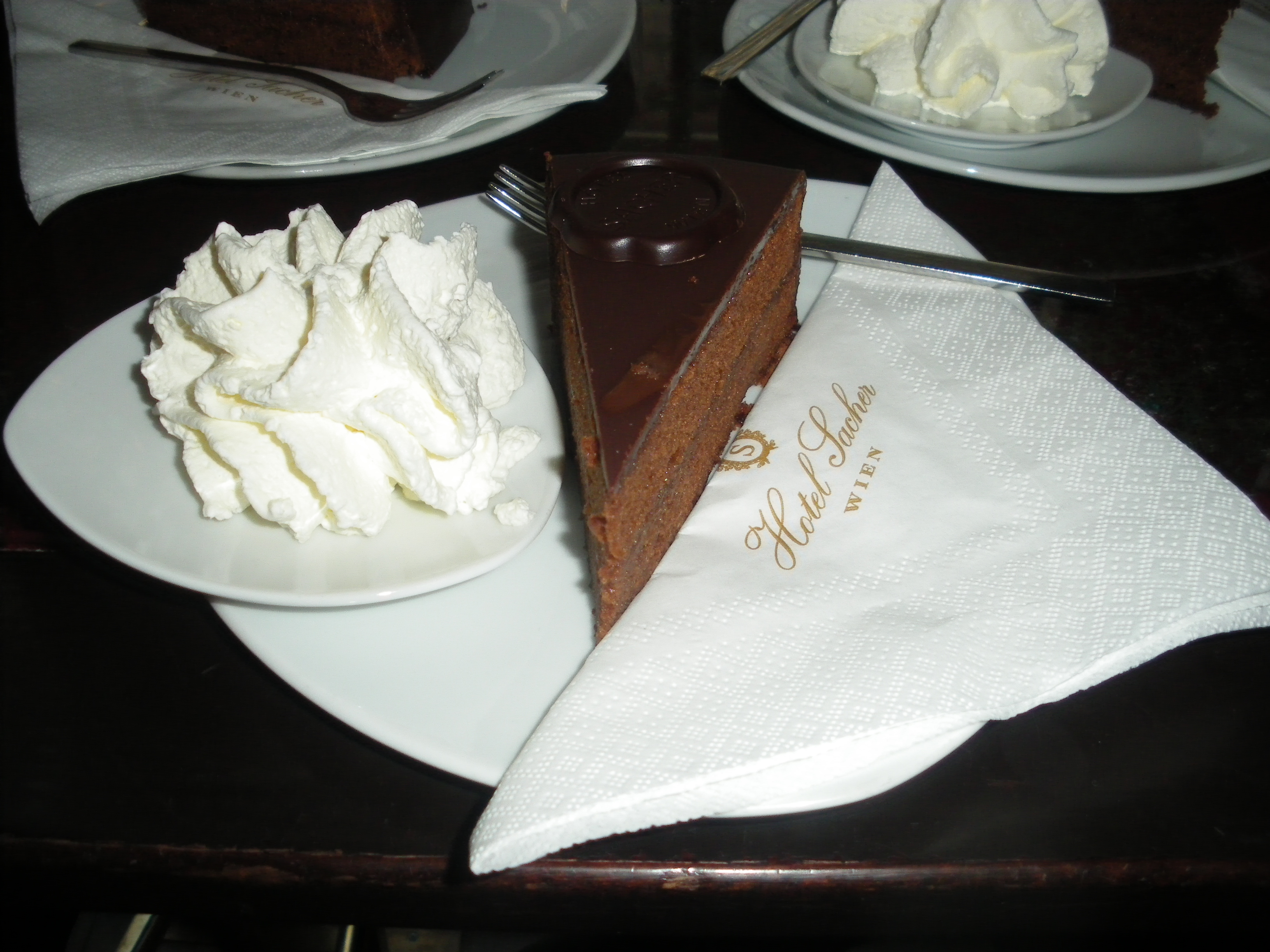 Eating Sacher torte in Sacher Café, Vienna